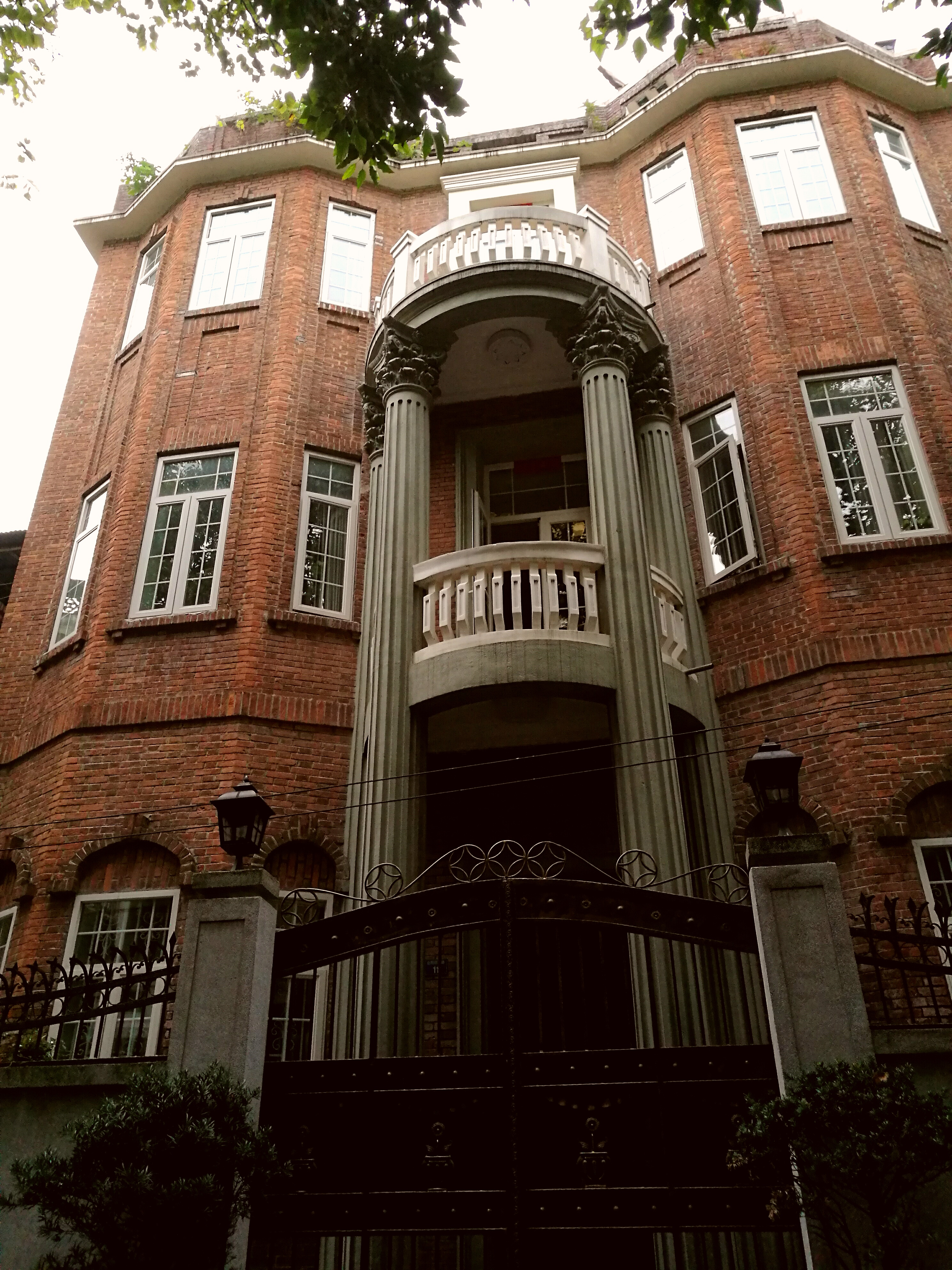 A Dongshan historic mansion in Dongshankou 中文（中国大陆）: 广州东山口的一栋东山洋房